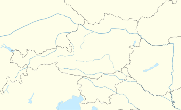 location map for the international ice-hockey league "EBEL"